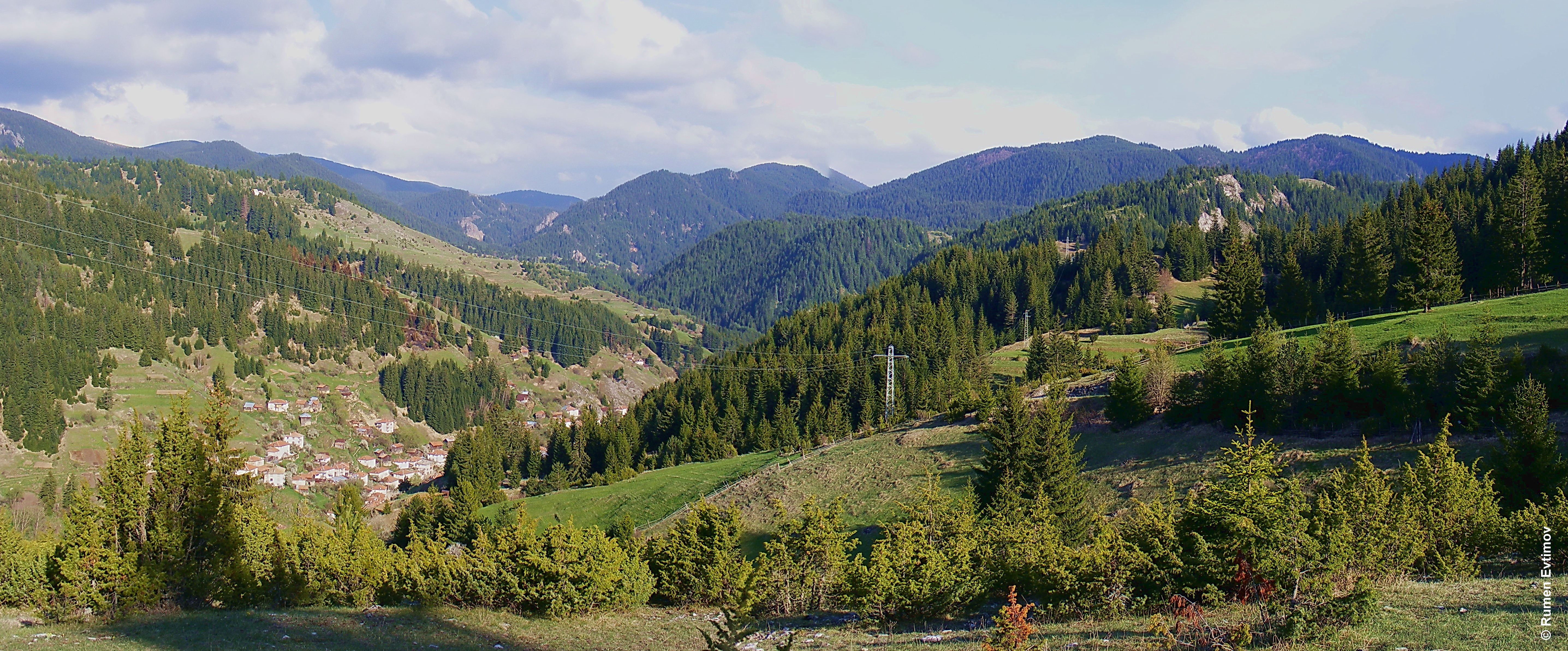 Panorana of Mugla